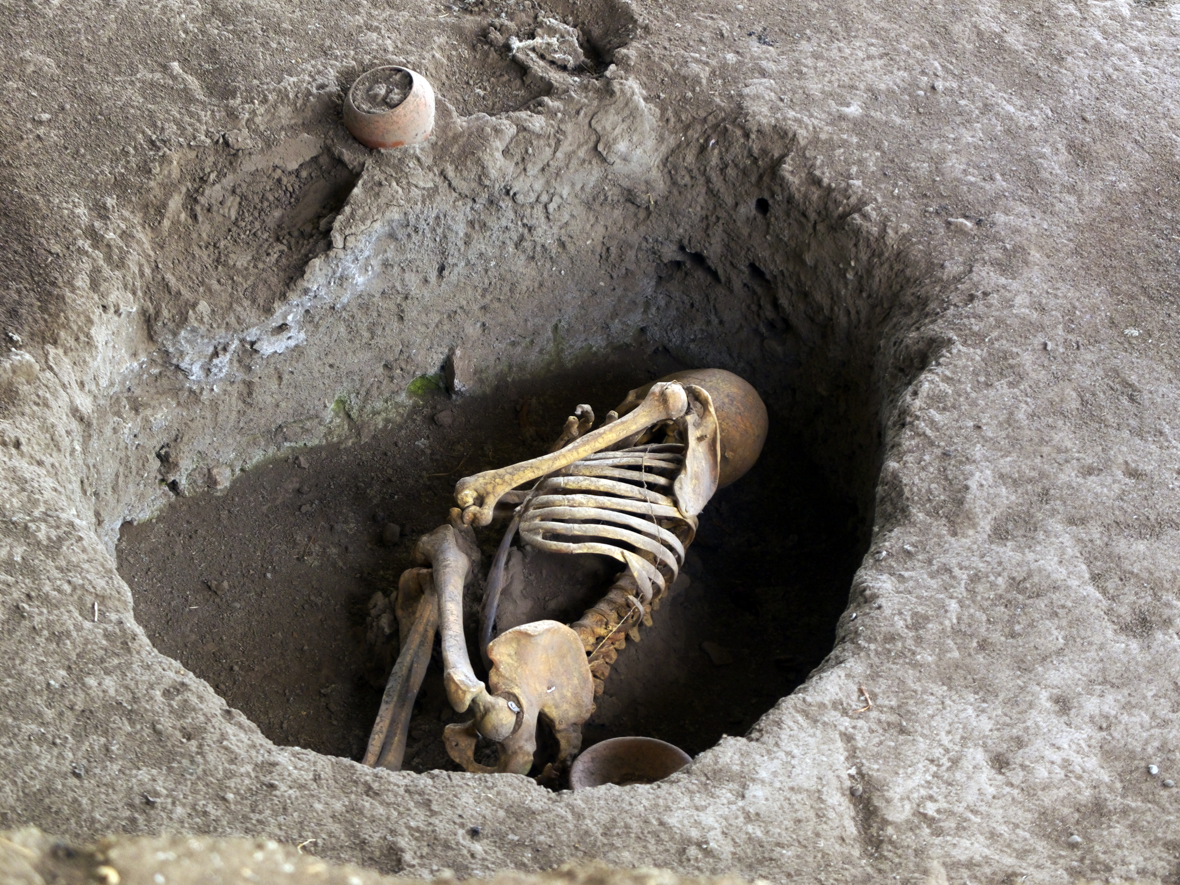 Sample of a burial in the Ecological and Archaeological Park Rumipamba that allows to know more about the Yumbo civilization, people who lived in the current Quito before the arrival of the Incas.